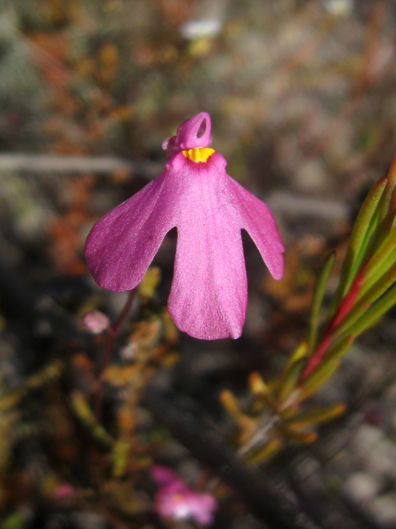 Utricularia multifida Bladderworts like this are carnivorous, with suction operated traps on their roots, like little bubbles that vacuum up nearby critters and trap them inside where they are digested. Photographed in the Yule Brook (Alison Baird) Botanical Reserve in Kenwick.